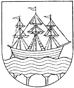 Coat of arms of Strömstad